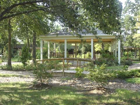 The Peoples Park in Kingwood Texas (Courtesy of the Kingwood Connection {